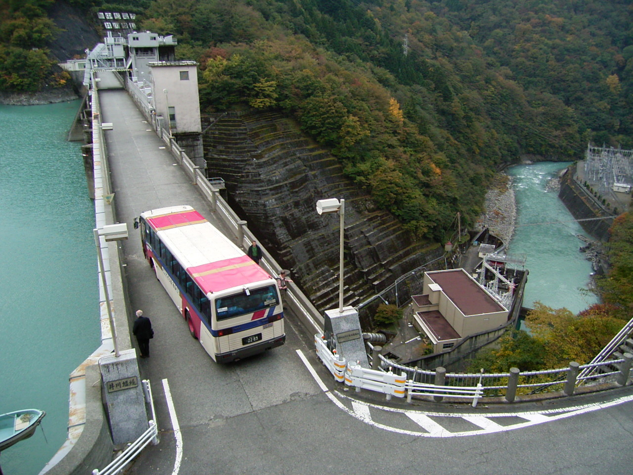 Top of Ikawa dam Shizuoka Japan